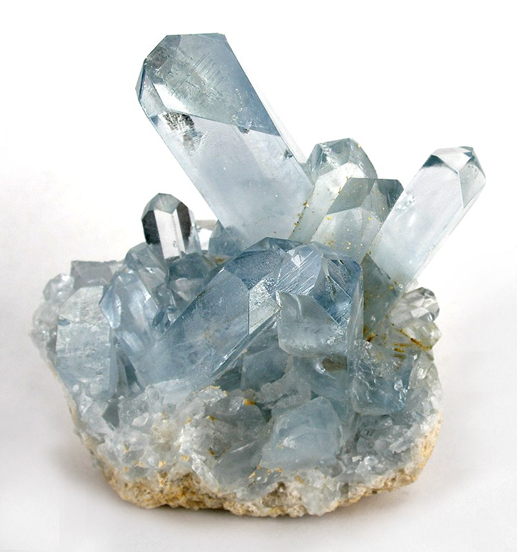 Celestine Locality: Majunga, Madagascar Size: small cabinet, 8.1 x 7.8 x 4.4 cm Celestite It is very difficult to remove gemmy, undamaged, clusters of celestine, like this one, from the large geodes in which they form. The aesthetic arrangement of the lustrous, transparent, sky blue, prismatic crystals, to 6.0 cm in length, helps make this Celestine, a winner. I normally look righ tpast the stuff...its usually just "stuff," in mass quantities. But THIS ONE stands above, and is simply a fine mineral specimen by any standard. It is so glassy and dramatic and gemmy, that i could see this in place amongst many more expensive and "rare" gem crystals in any fine collection. This is a calibre for the find that not 1 in 1000 pieces reach. I just cannot rave about it enough. In person, by the way, the color and lustre and glassiness are all much more intesne!